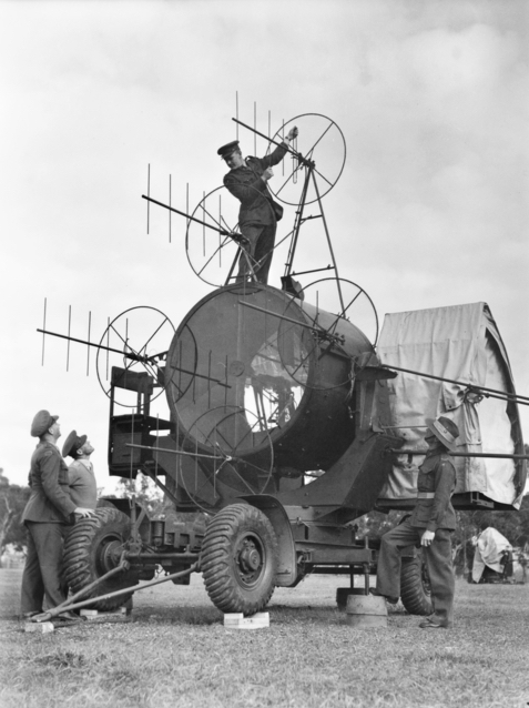 Members of the 58th Searchlight Battery work on the SLC Mark VI radar on the 150 cm searchlight. The radar worked by sending a signal out of the antenna at the very top (being held) and received on the four antennas below it. By delaying the signals from the four receivers, the sensitive direction of the array as a whole could be directed off-center and then rotated. By watching the return signals as the beam rotated, the direction of the target could be determined. The Mark VI refers to the mounting, not the radar itself, which had several other Marks depending on what it was attached to. Original description: EAST PARKLANDS, SA. 1944-09-15. MEMBERS OF THE 58TH SEARCHLIGHT BATTERY CHECK ON ANTI-AIRCRAFT NO. 2 MK 6 RADAR SEARCHLIGHT CONTROL MACHINE. IDENTIFIED PERSONNEL ARE:- SX25566 CAPTAIN A.J. QUALMANN, COMMANDING OFFICER (1); S33219 LIEUTENANT E.K. OMOND, ADJUTANT (2); NX102180 LIEUTENANT F.W. THORNHILL (3); VX106740 SERGEANT C.A. ANDERSON (4).